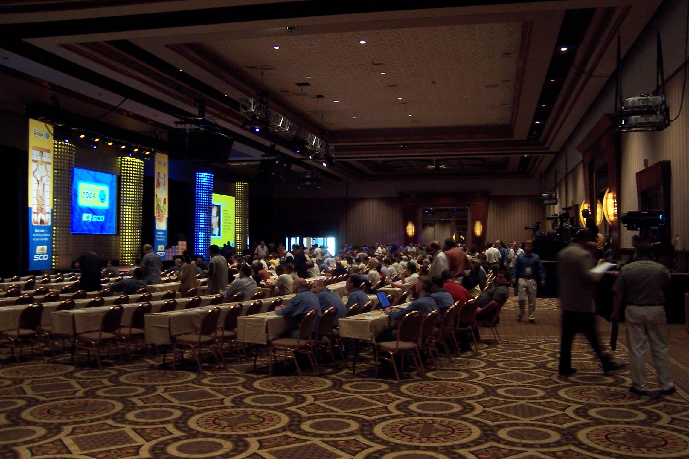 The main Monday morning keynote session at SCO Forum 2004 at the MGM Grand conference center in Las Vegas, Nevada.